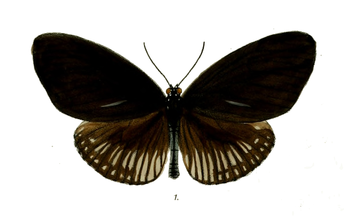 Penoa menetriesii = Euploea algea